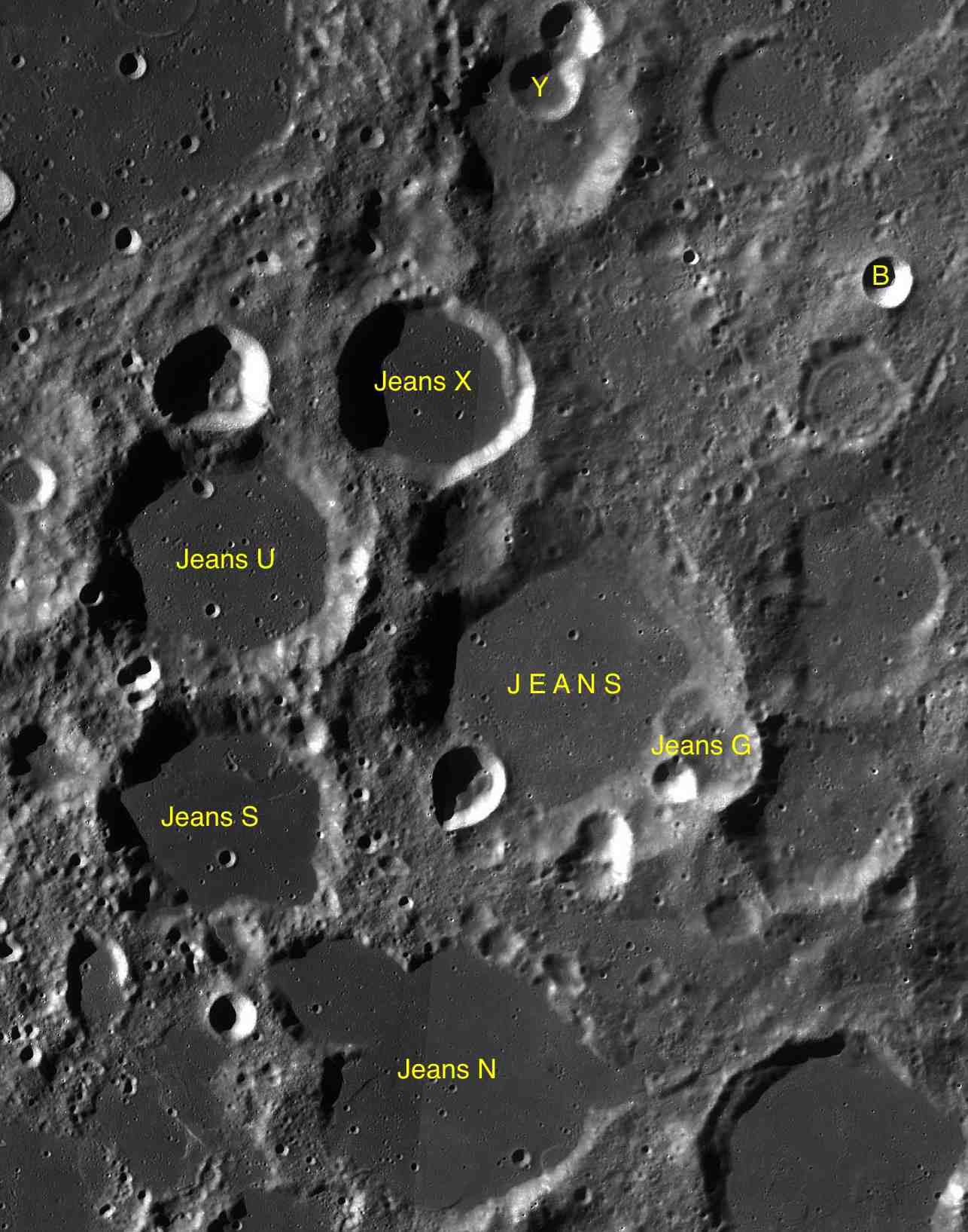 Part of the chart LAC-129 used for the presentation